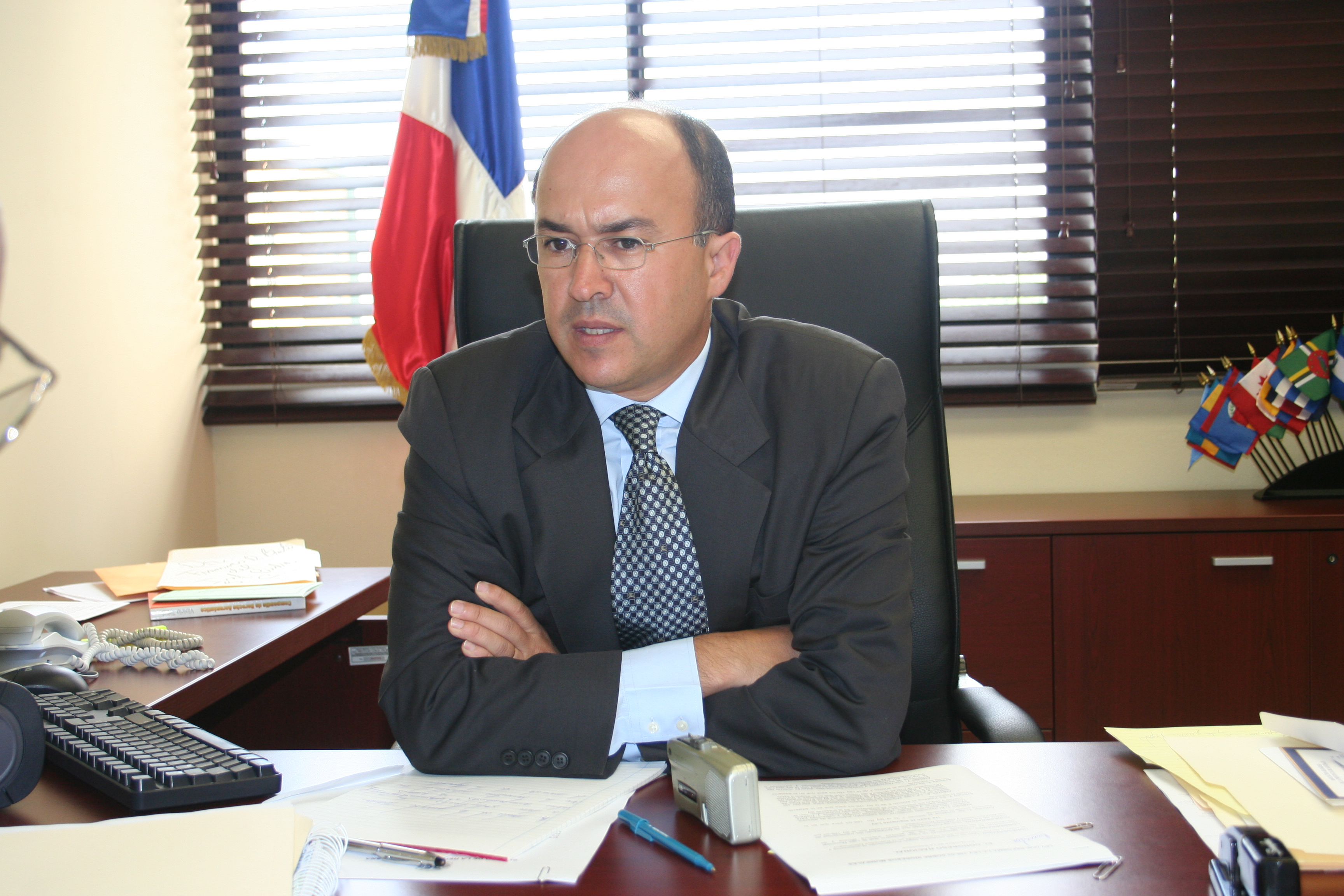 Francisco Domínguez Brito